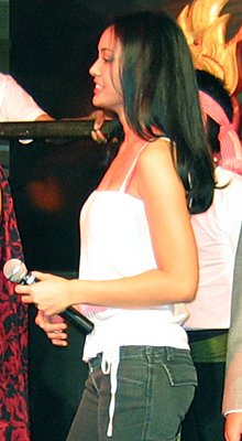 Bongkoj Khongmalai at the press screening for Tom-Yum-Goong.